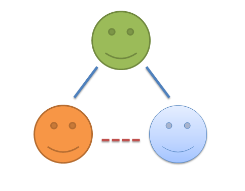 An example of Weak Ties